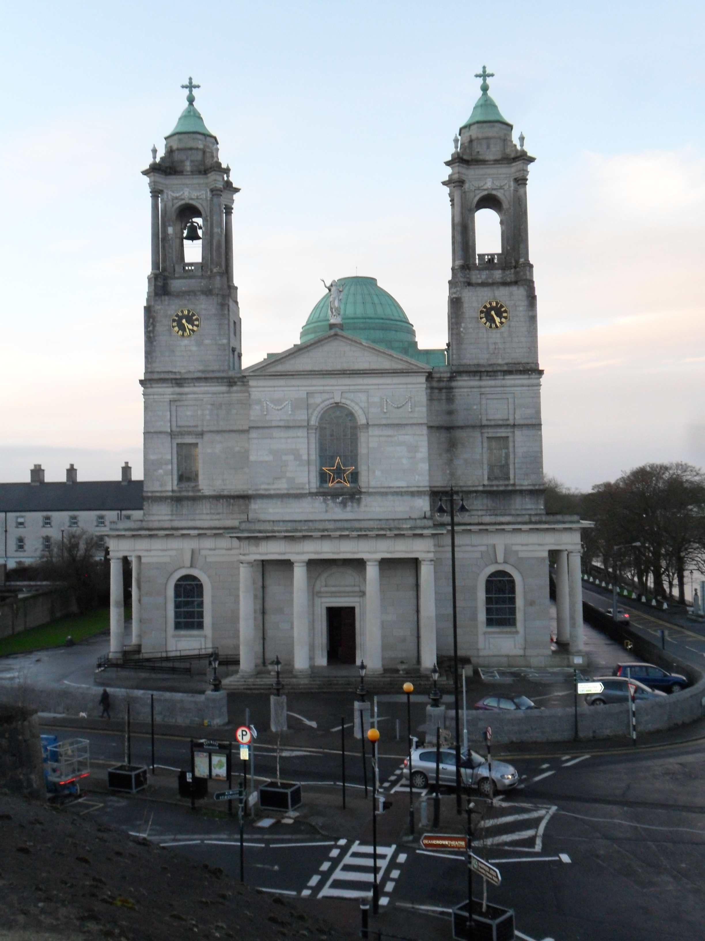 View of the St Peter and Paul Church in Athlone, Co. Westmeath, Ireland